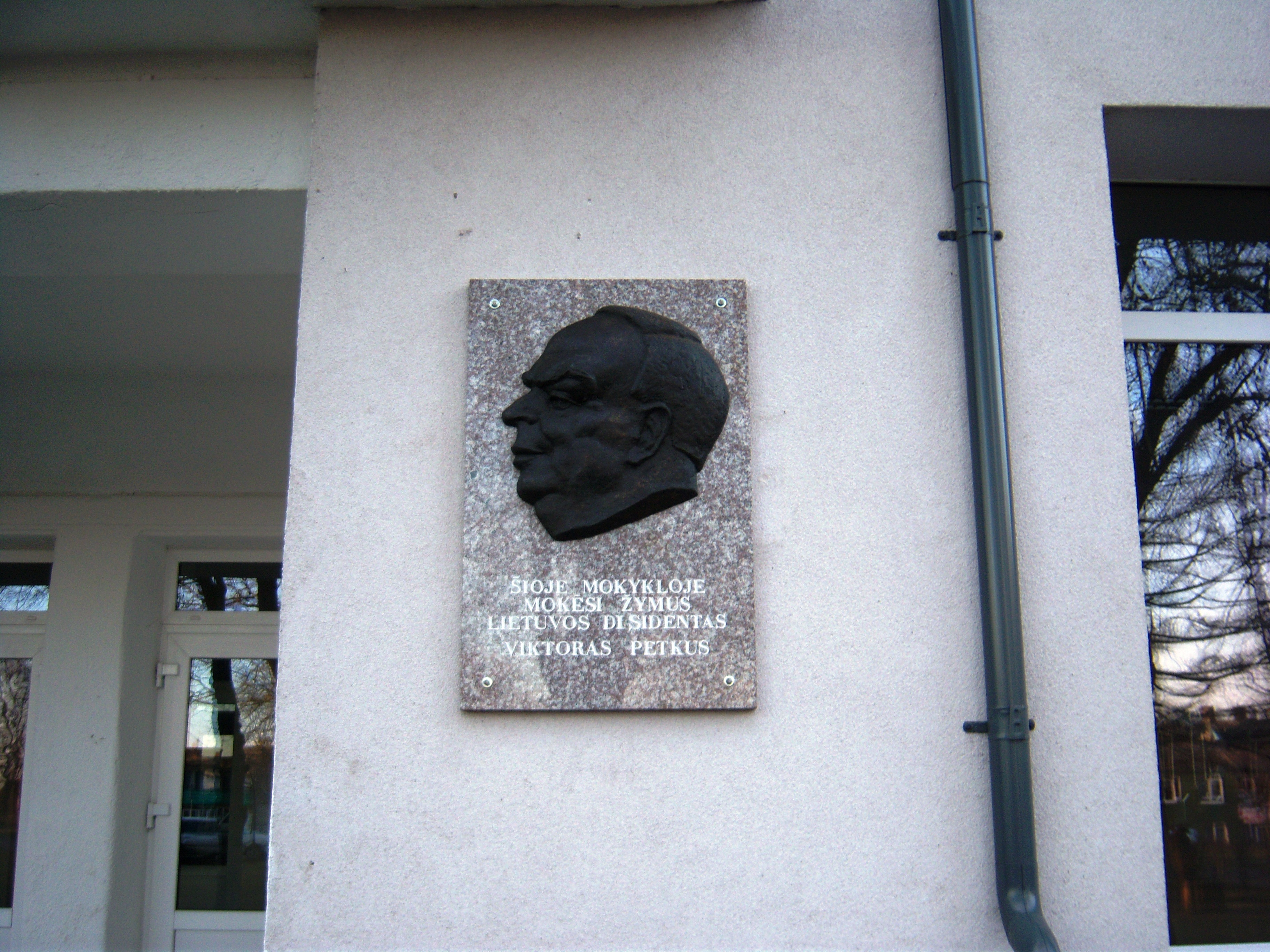 Memorial plaque on a school, Raseiniai, Lithuania